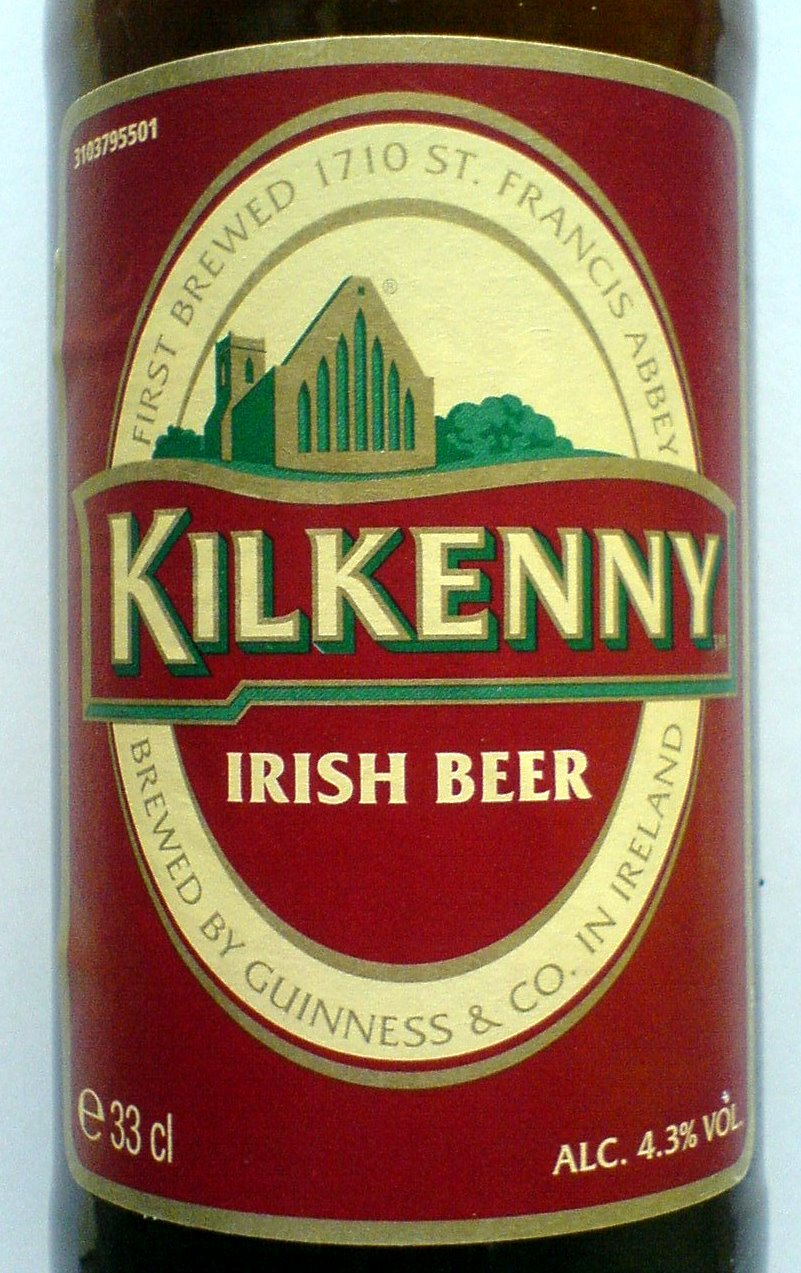 Kilkenny Label